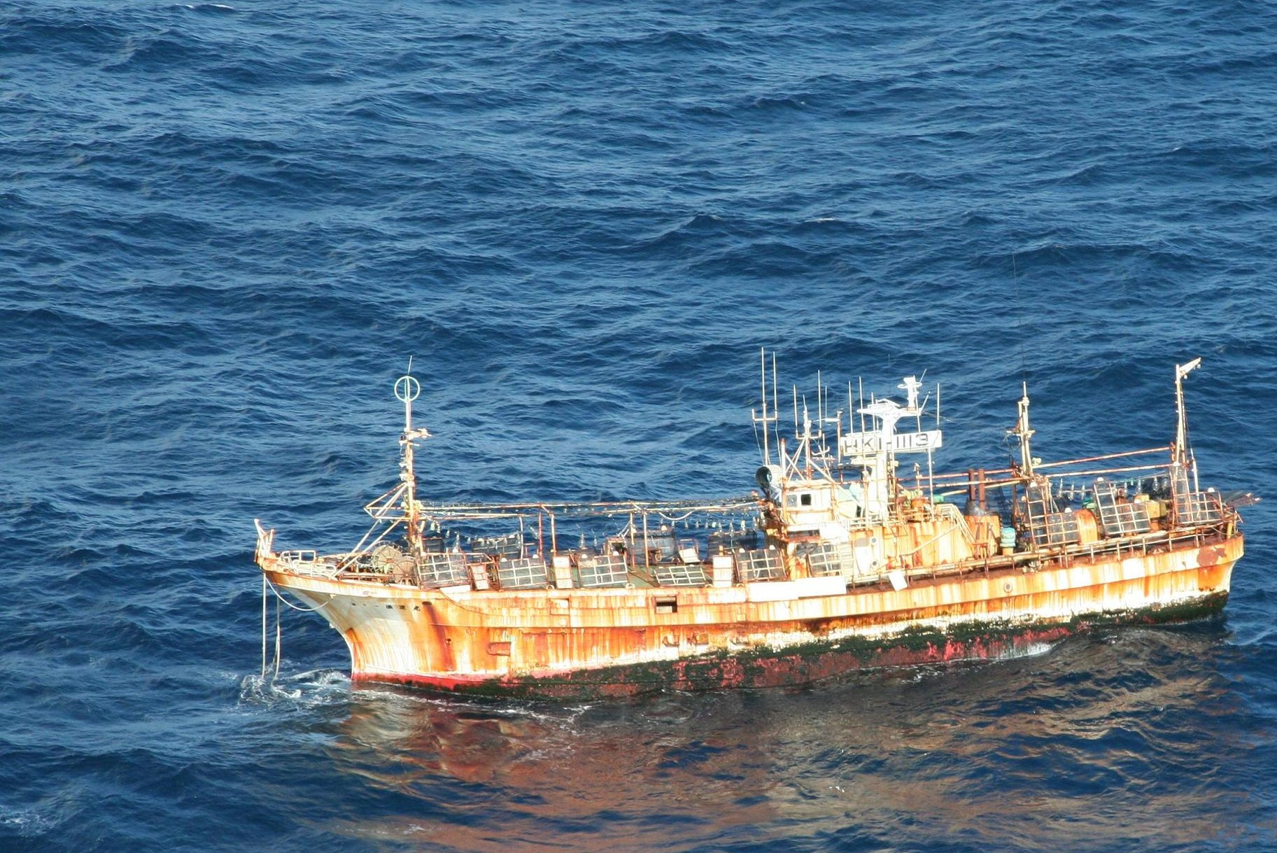 Gulf of Alaska - The derelict Japanese fishing vessel RYOU-UN MARU drifts more than 125 miles from Forrester Island in southeast Alaska where it entered U.S. waters March 31, 2012. The fishing vessel has been drifting unmanned at sea since the 2011 Fukoshima earthquake and subsequent tsunami more than a year ago. U.S. Coast Guard photo by Air Station Kodiak.